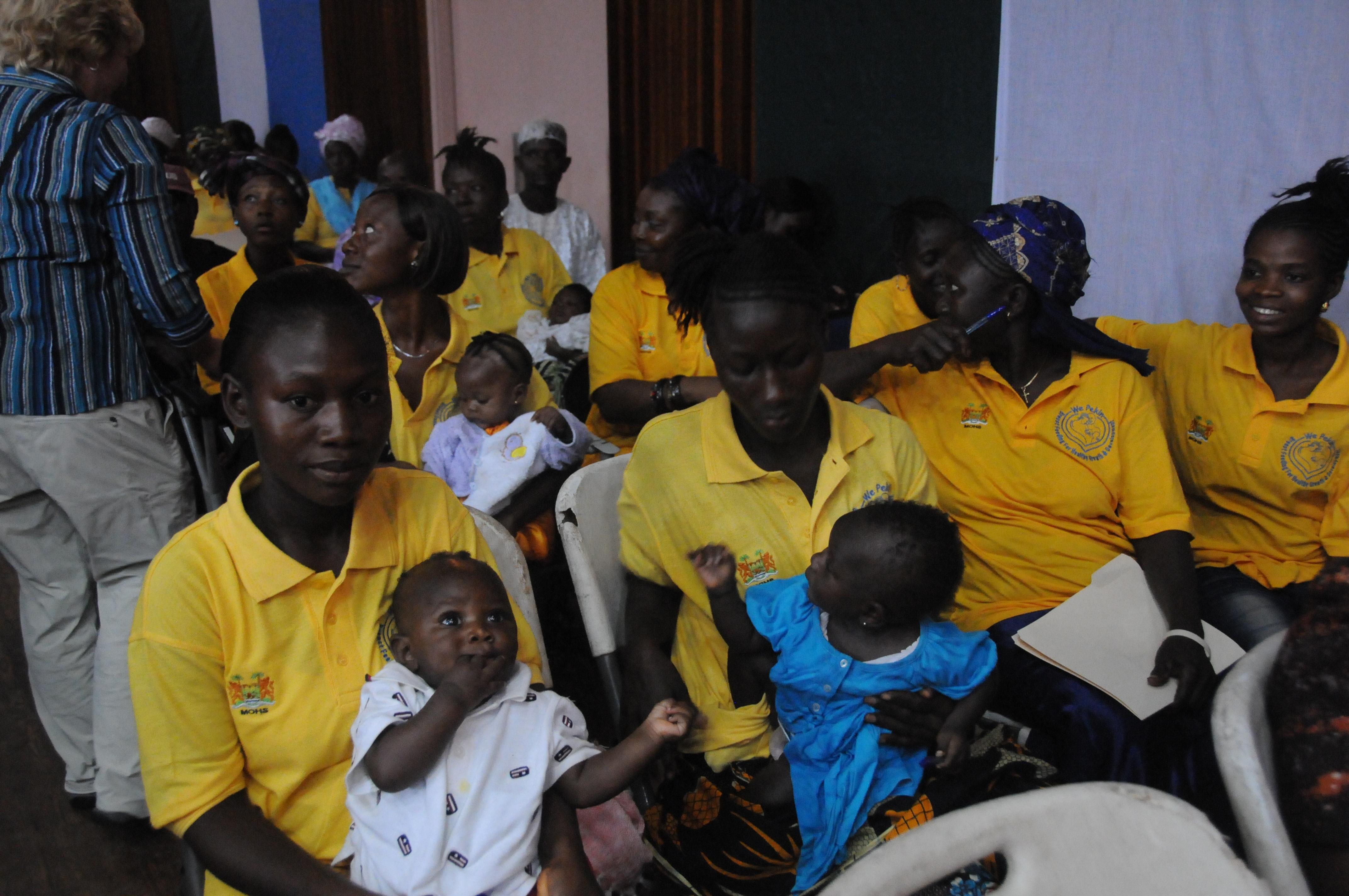 On August 4th, 2011, Sierra Leone’s Ministry of Health and Sanitation celebrated this year’s World Breastfeeding Week and its themes of communication and youth engagement. The Ministry brought together mothers from across Sierra Leone to celebrate and launch their important work in explaining and promoting breastfeeding to their communities as part of the “We Pikin Network.” In collaboration with its partners, including USAID, the Ministry will build on public awareness and advocacy activities to protect, promote and support mothers in the community to begin early and exclusive breastfeeding, and then to support the introduction of appropriate complementary foods as their babies grow. USAID is actively involved in providing training and support to Sierra Leonean mother care groups through its Sustainable Nutrition and Agriculture Program which plans to work with more than 2500 mothers who as leaders, will support more than 50,000 other mothers. Each ‘We Pikin’ group connects 10-15 volunteer mothers, and each group supports 50 households with infant and young child feeding practices. A total of 1,233 “We Pickin” groups are already supporting mothers nationwide and will be complemented by USAID’s mother care groups. Jean Benedict, USAID Country Team Manager, addressed the event’s participants, including the Minister of Health and Sanitation, Zainab Bangura, and 250 people from all 13 districts/areas of Sierra Leone including all the lead mothers from the We Pikin Network. She highlighted the health and nutritional benefits of breastfeeding and added, “No matter where a child is born, every parent in the world is unified in wanting to give that child a strong and healthy start in life. USAID salutes “We Pikin” and the efforts of the government to enable half of all mothers in Sierra Leone to practice exclusive breastfeeding by 2015.” (Collin Benedict/USAID)